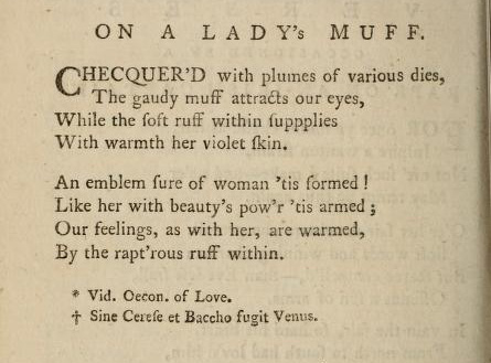 Poem from John Almon's A Fugitive Miscellany (1744), vol. 2.